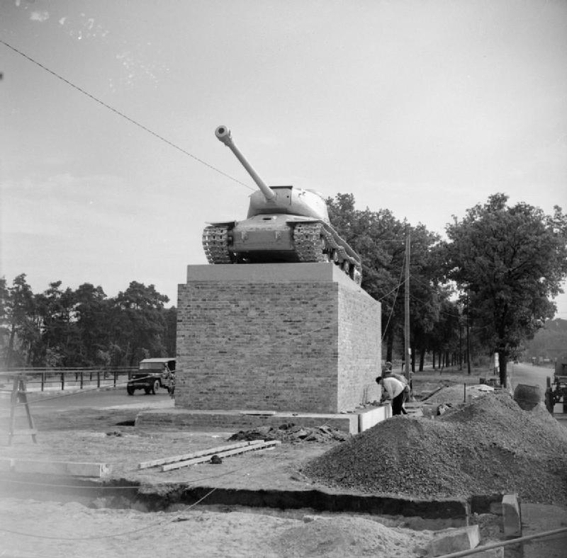 Germany Under Allied Occupation The first Russian tank to enter Berlin is immortalised by becoming part of a monument to commemorate that achievement. The tank was finished off with a coating of aluminium and placed on a brick pedestal faced with white marble. The monument was located on the Berlin inner ring road on the way to Templehof Airport.